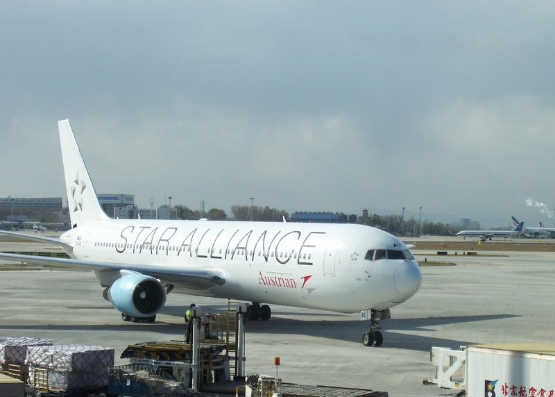 Austrian B767-3Z9ER OE-LAZ in PEK